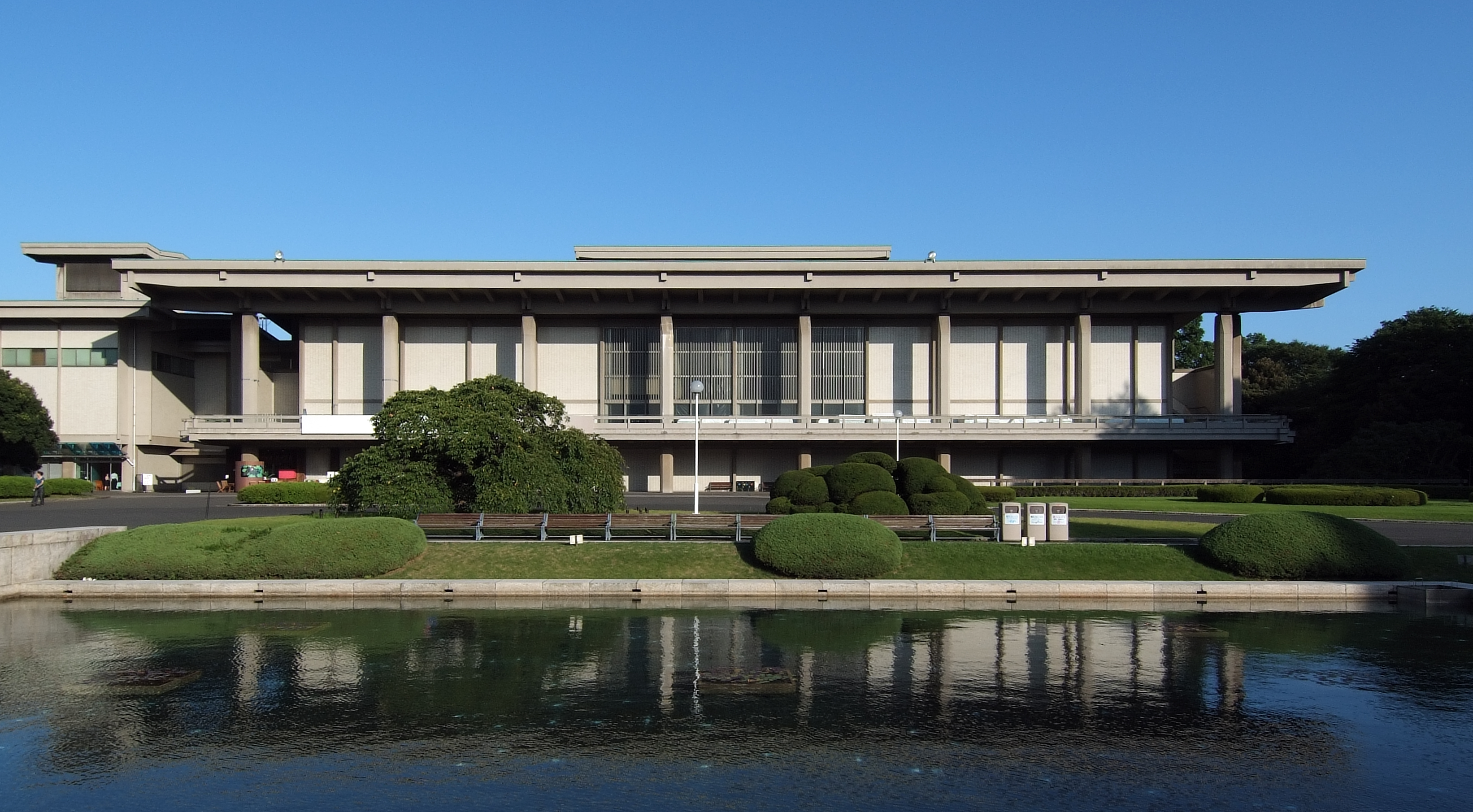 Toyokan of Tokyo National Museum, Taito-ku Tokyo Japan, designed by Yoshiro Taniguchi in 1968.